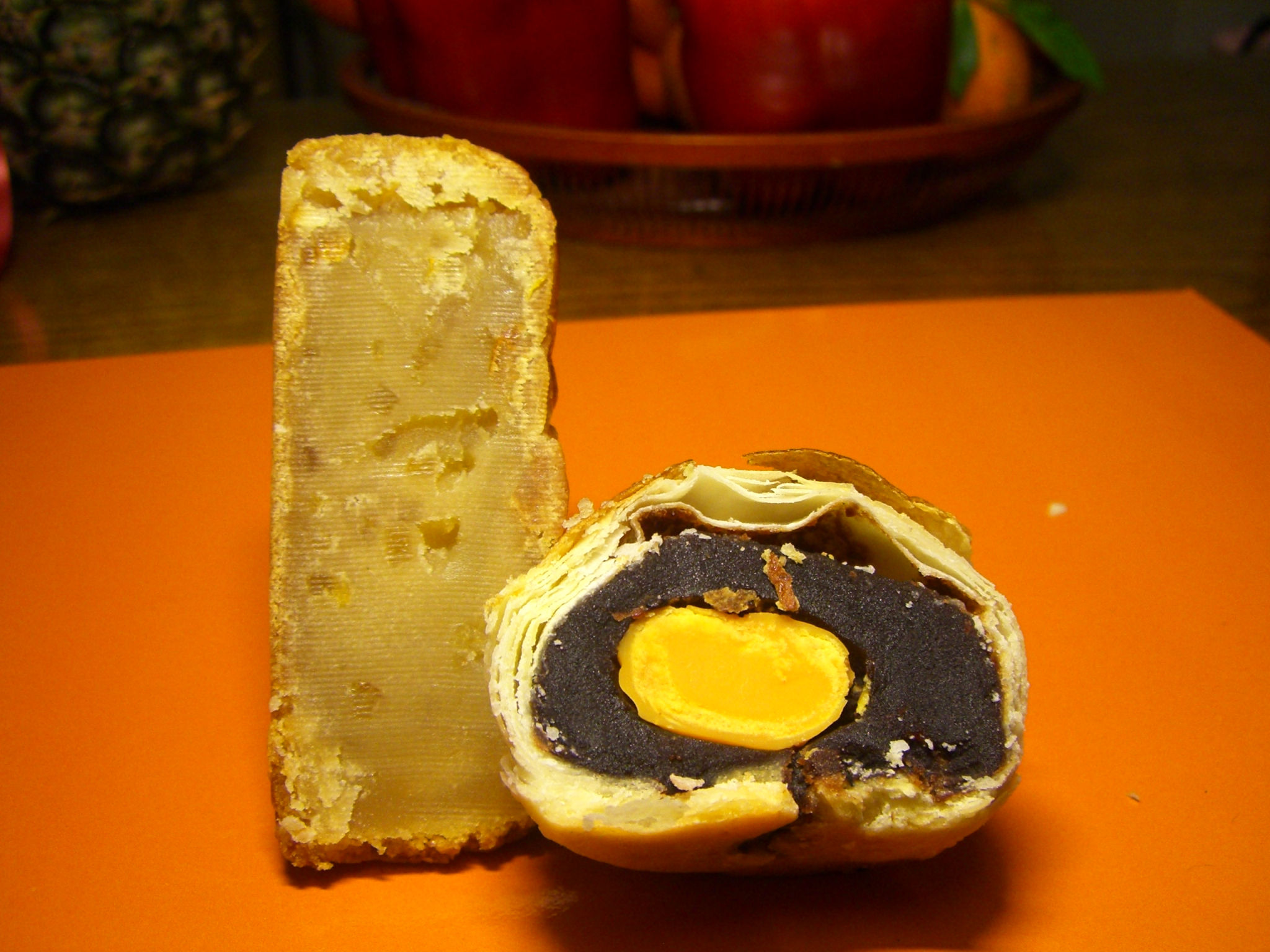 2 mooncakes cut in half, one filled with pine seed paste, one with red bean paste and salted duck egg yolk. own work